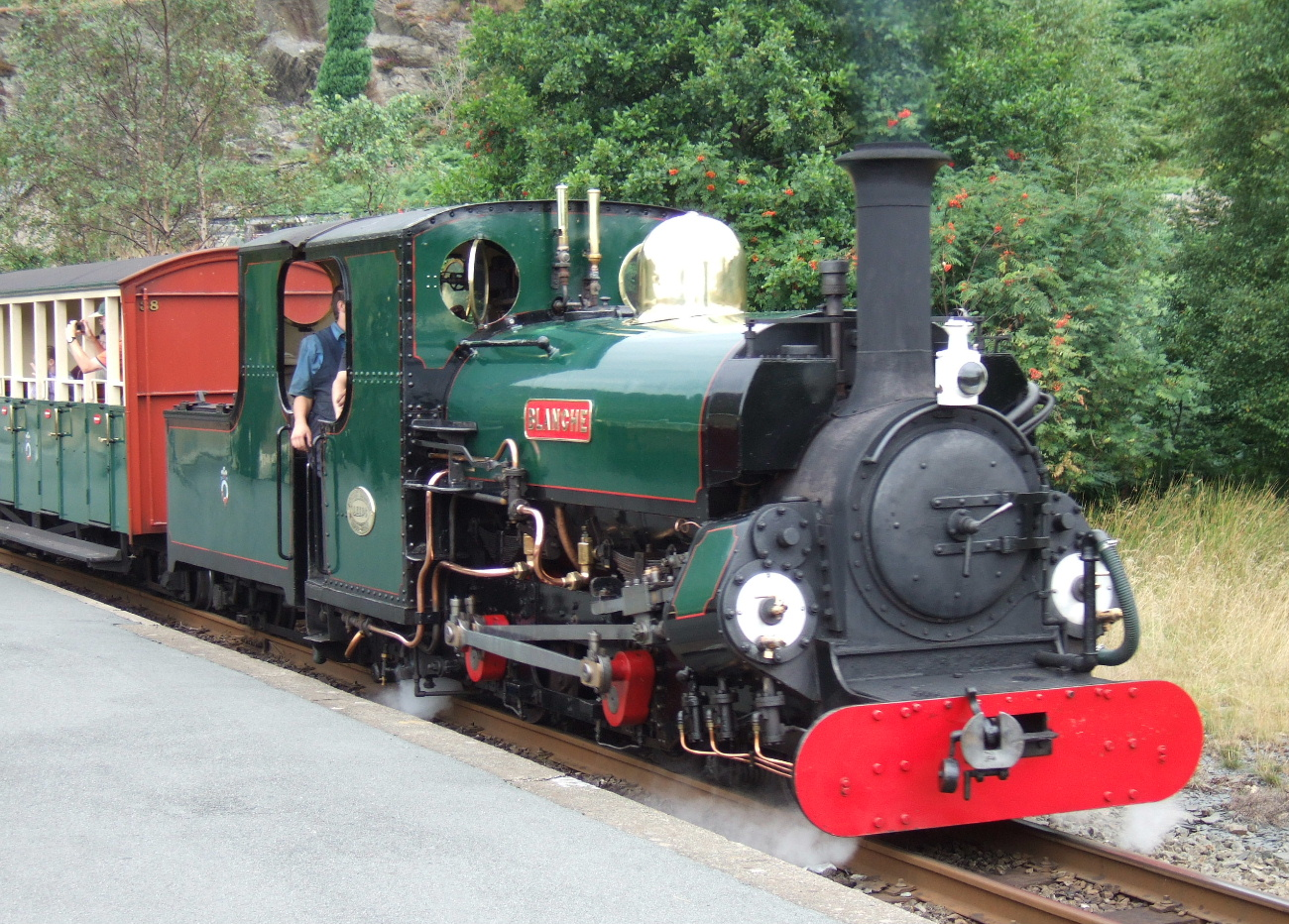 Ffestiniog Railway. 'Blanche' Hunslet 0-4-2STT HE589 of 1893. Trimmed and file size reduced using Finepix Software.